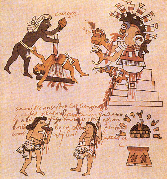 Aztec Human Sacrifice 11 A heart sacrifice is done before the altar of an earth or underworld deity with a ferocious image. The sacrificial priest wears black body paint. Below, two worshipers carrying white incense pouches pierce their tongues and ears with large bone awls. On their right, a ball of copal burns above an offering of paper. Tudela Codex.